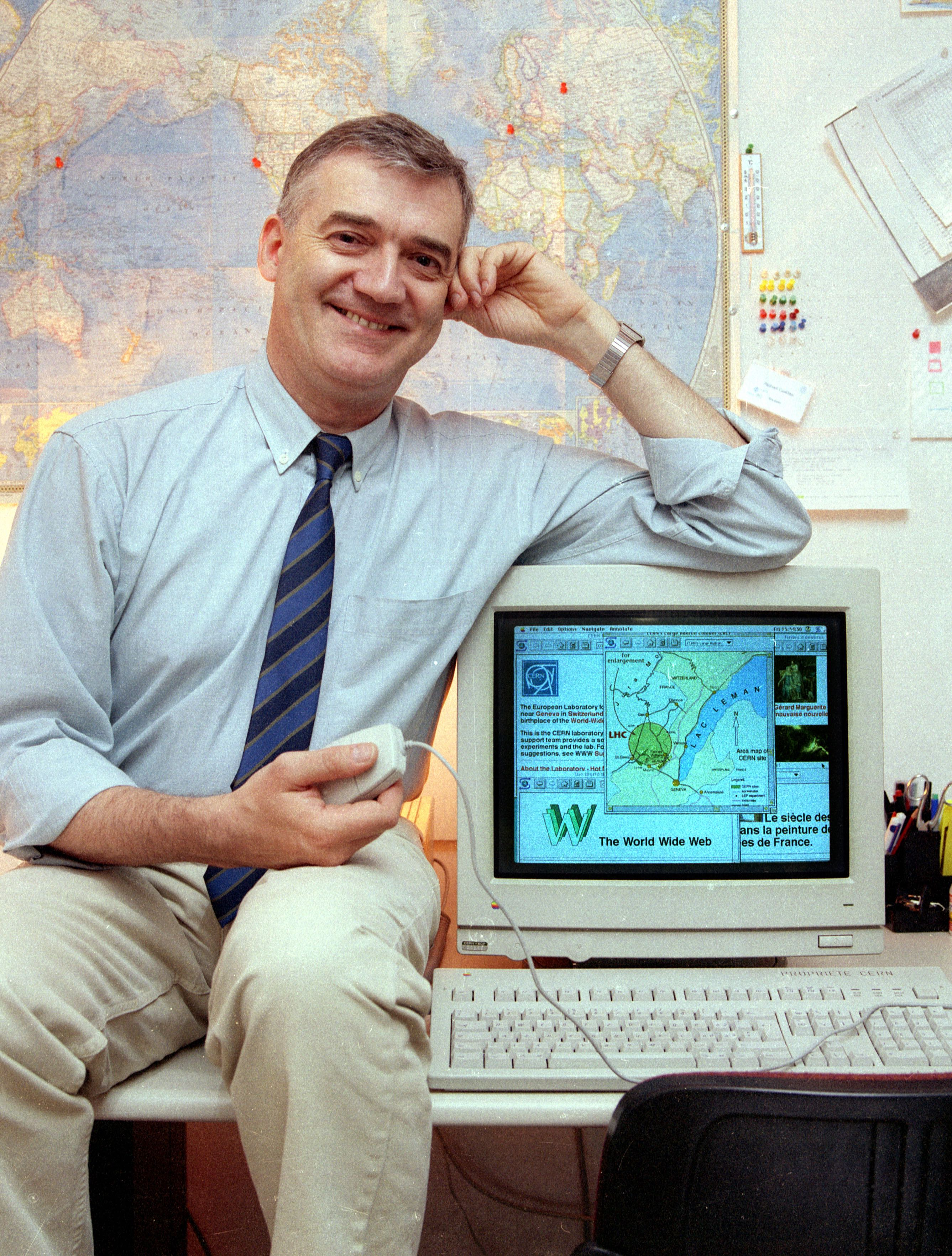 Robert Cailliau sitting on a desk. Afbeelding:Robert Cailliau.jpg Image:Robert cailliau.jpeg Aafbeilding:Robert_Cailliau.jpg